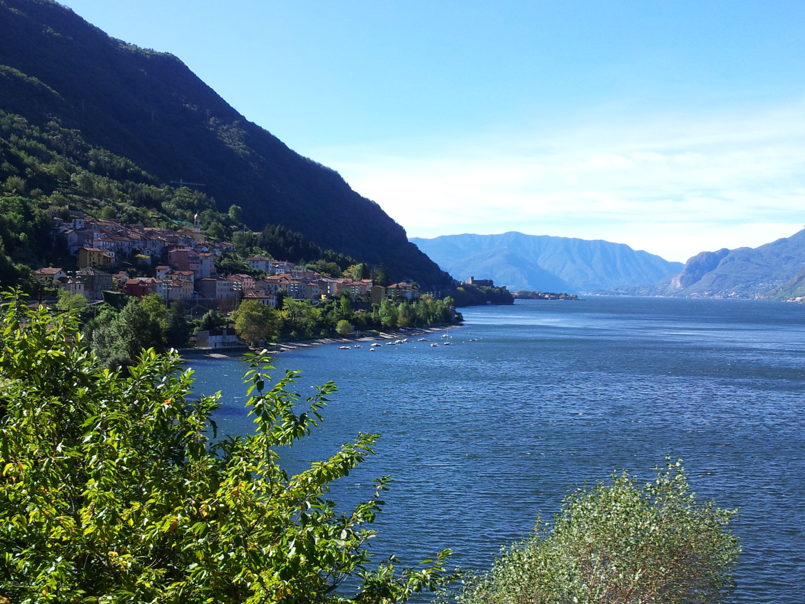 Italy, Lombardy, Lake Como, Dorio (front) and Corenno Plinio